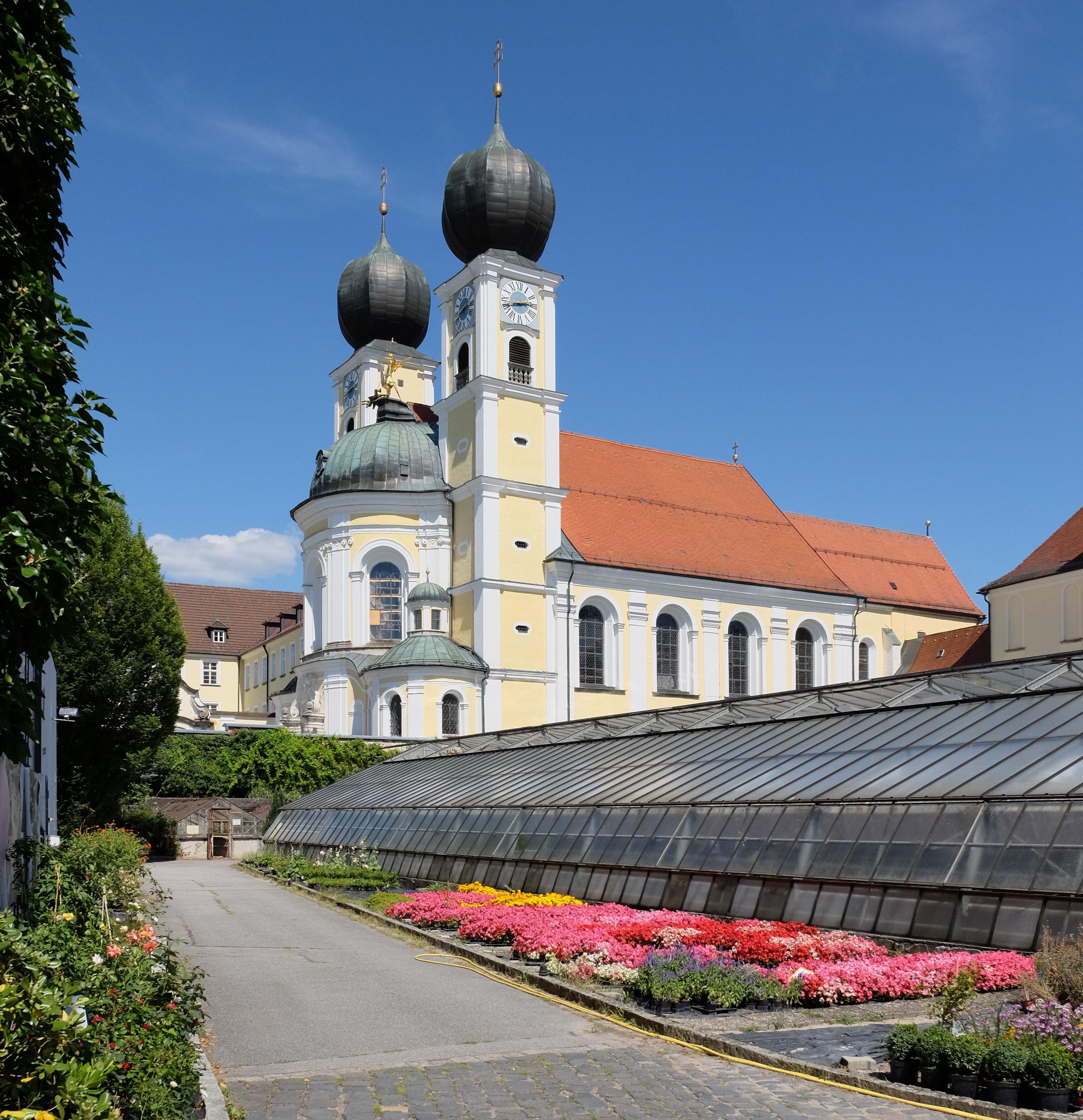 Klosterkirche Metten, Metten Abbey, district Deggendorf, Bavaria, Germany